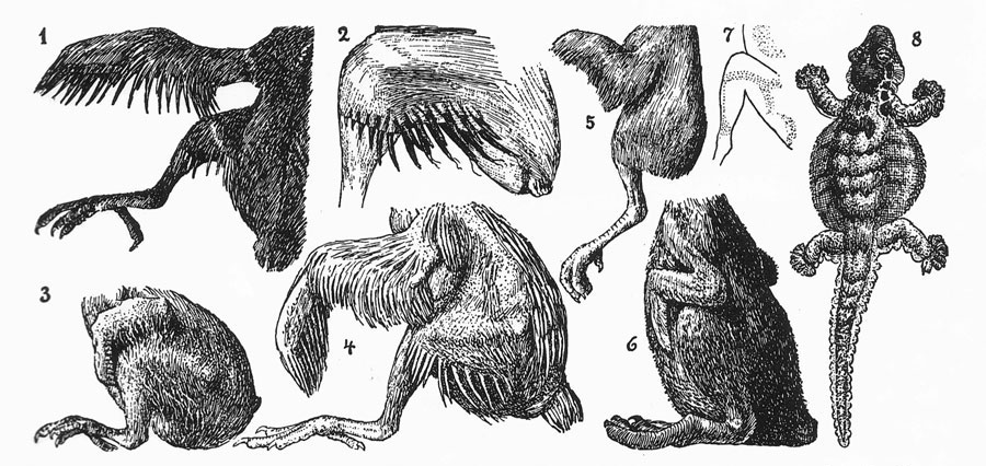 Gerhard Heilmann's comparative illustrations, redrawn from William Beebe's illustrations, of the hindlimbs of various immature birds and one reptile: four-day old squab of white-winged dove (1), detail of same showing pelvic wing (2), squabs of domestic pigeon, four days old (3) and a few days older (4), pheasant nestling (5), squab of shag (6), green woodpecker hind-limb (7), and fringed gecko (8).